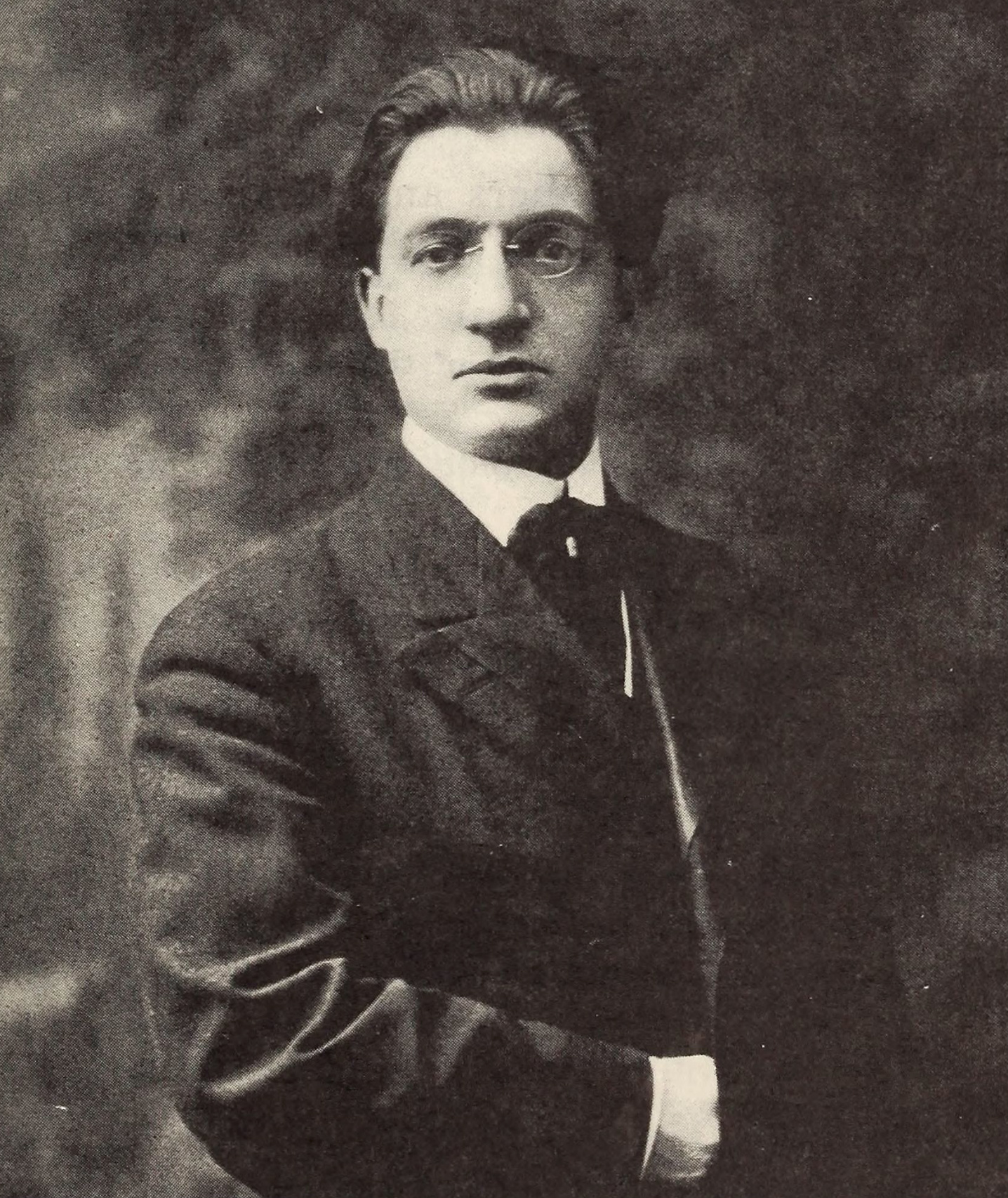 Portrait of conductor Cesare Sodero in 1916